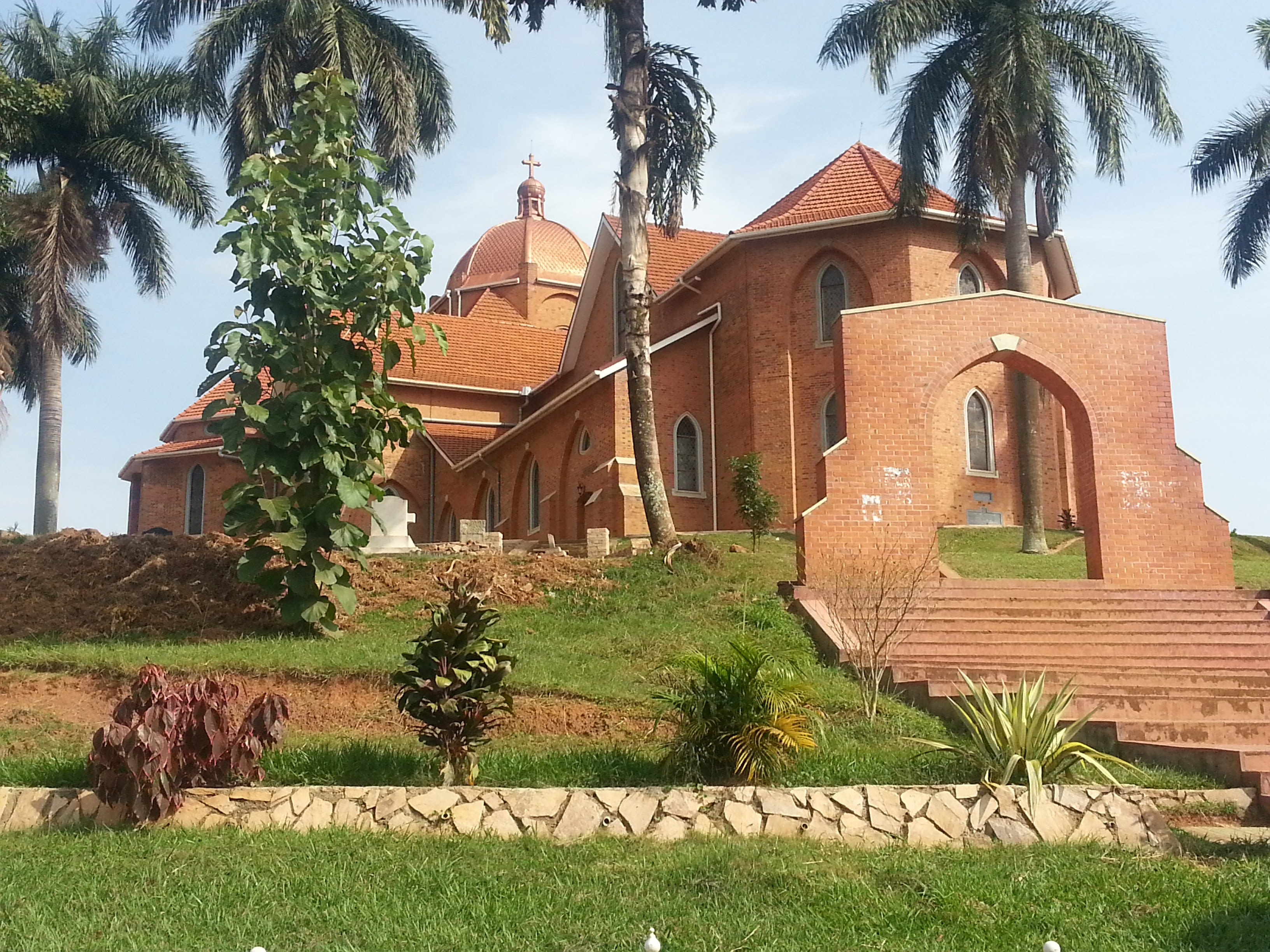 The archway entrance to St. Paul's Cathedral, Namirembe. 1st built in 1891, the church houses the Official seat of the Archbishop of the Church of Uganda, and the Anglican Diocese of Namirembe.